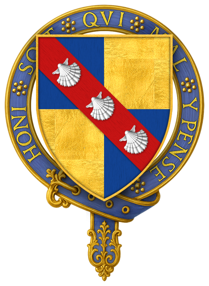 Sir John Fastolf, KG FOSTER, Joseph, Some Feudal Coats of Arms from Heraldic Rolls 1298-1418, London: James Parker & Co., 1902. “ Fastolf, John - (R. II. Roll) bore, quarterly or and azure on a bend gules three escallops argent; Surrey Roll. Ascribed to Sir John, K.G. temp. H. VI.; K. 402 fo. 6. ”